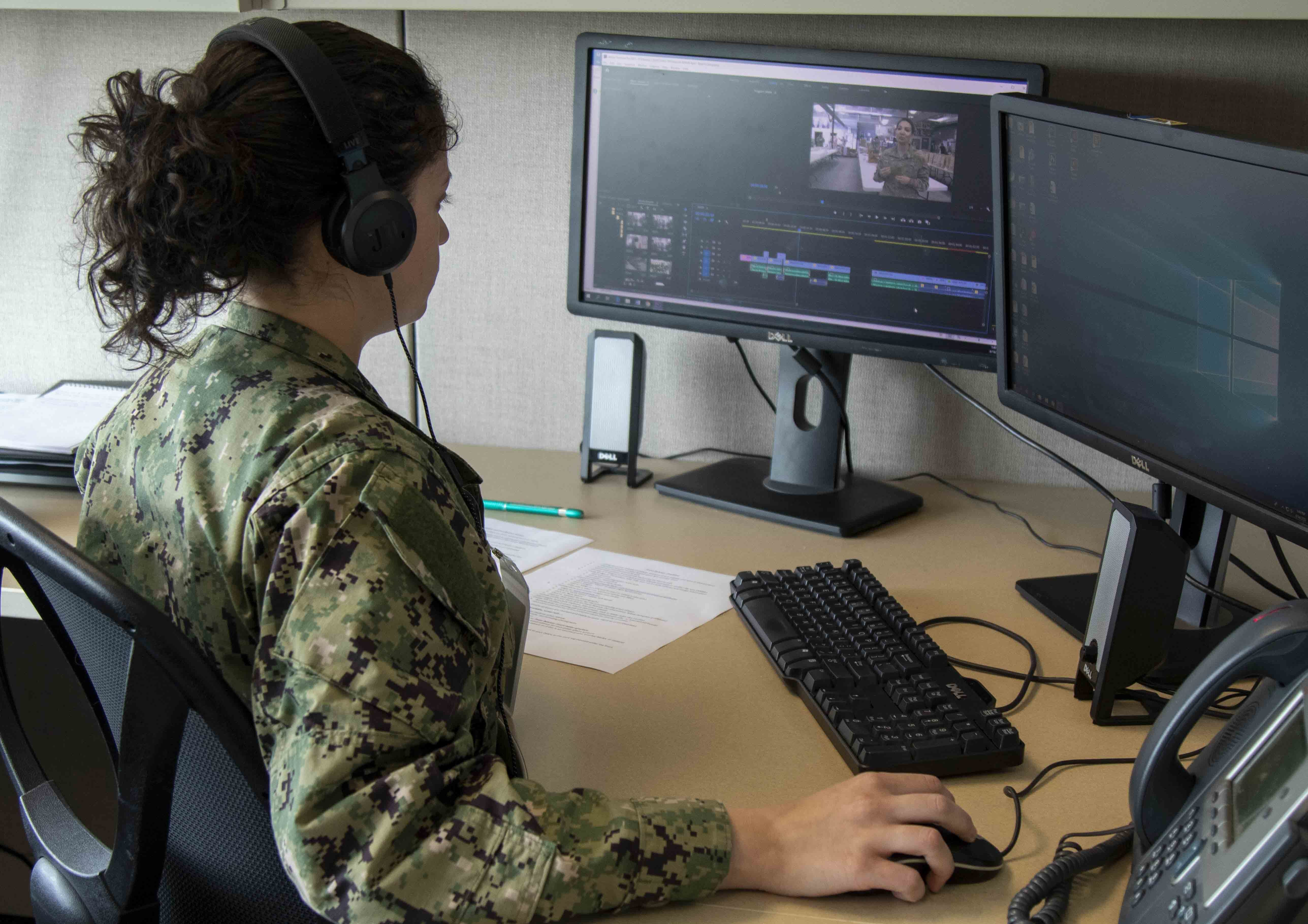 Mass Communication Specialist 3rd Class Victoria Granado, a member a the Alaska Naval Militia, edits video footage she took as public affairs coverage of COVID-19 response efforts from the Alaska National Guard, Alaska State Defense Force and the Alaska Naval Militia at Joint Base Elmendorf-Richardson, April 14, 2020. (U.S. Army National Guard photo by Spc. Grace Nechanicky/Released)